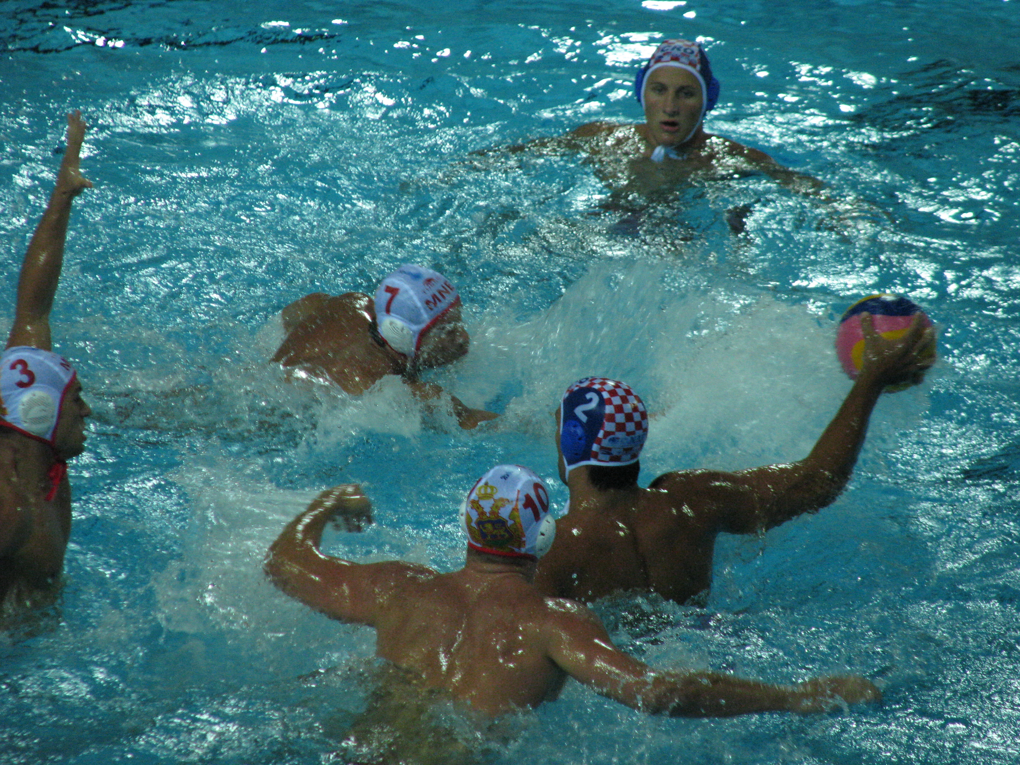 MNE vs CRO on 2010 Men's European Water Polo Championship in Zagreb